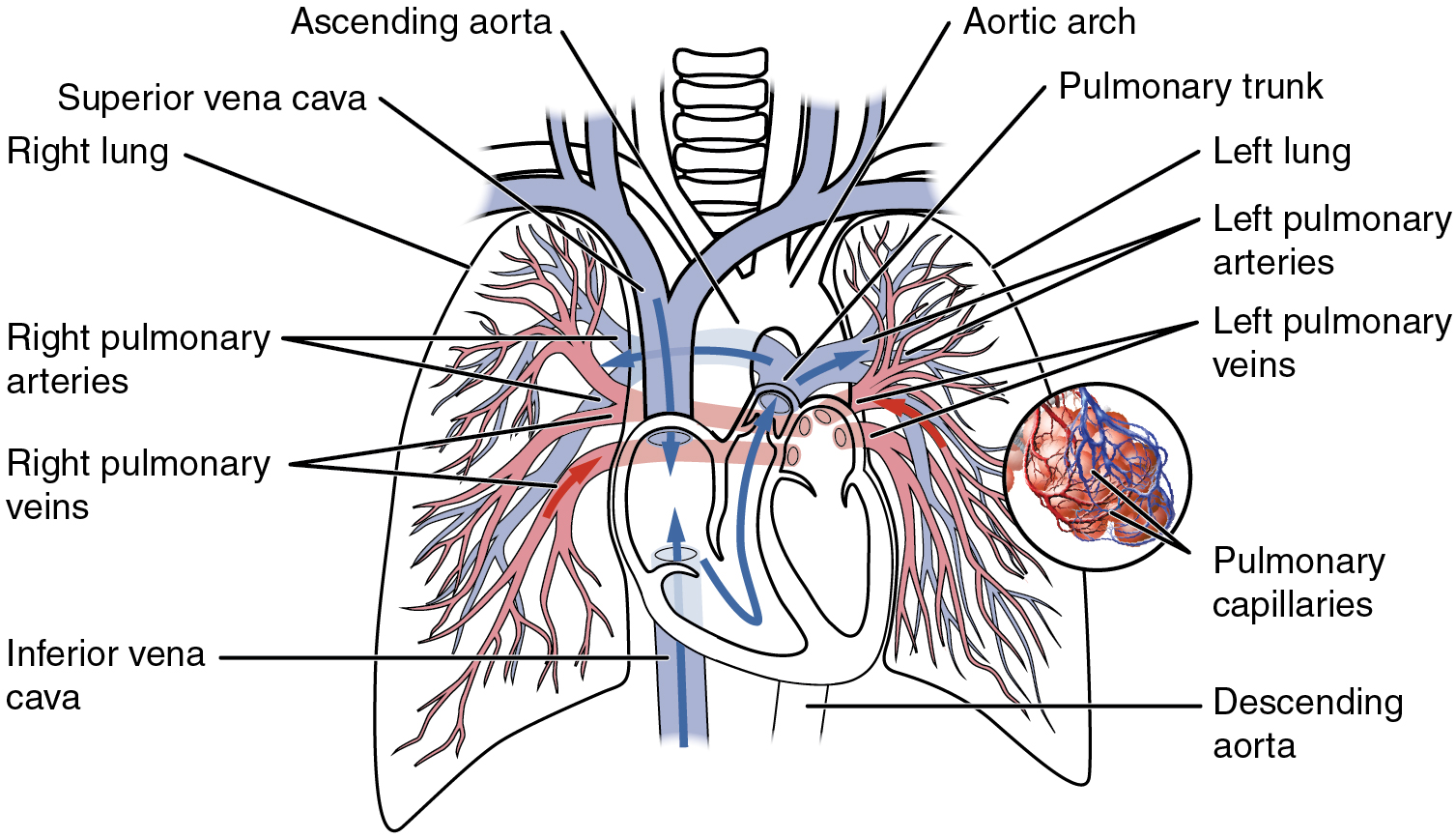 Illustration from Anatomy & Physiology, Connexions Web site. Jun 19, 2013.